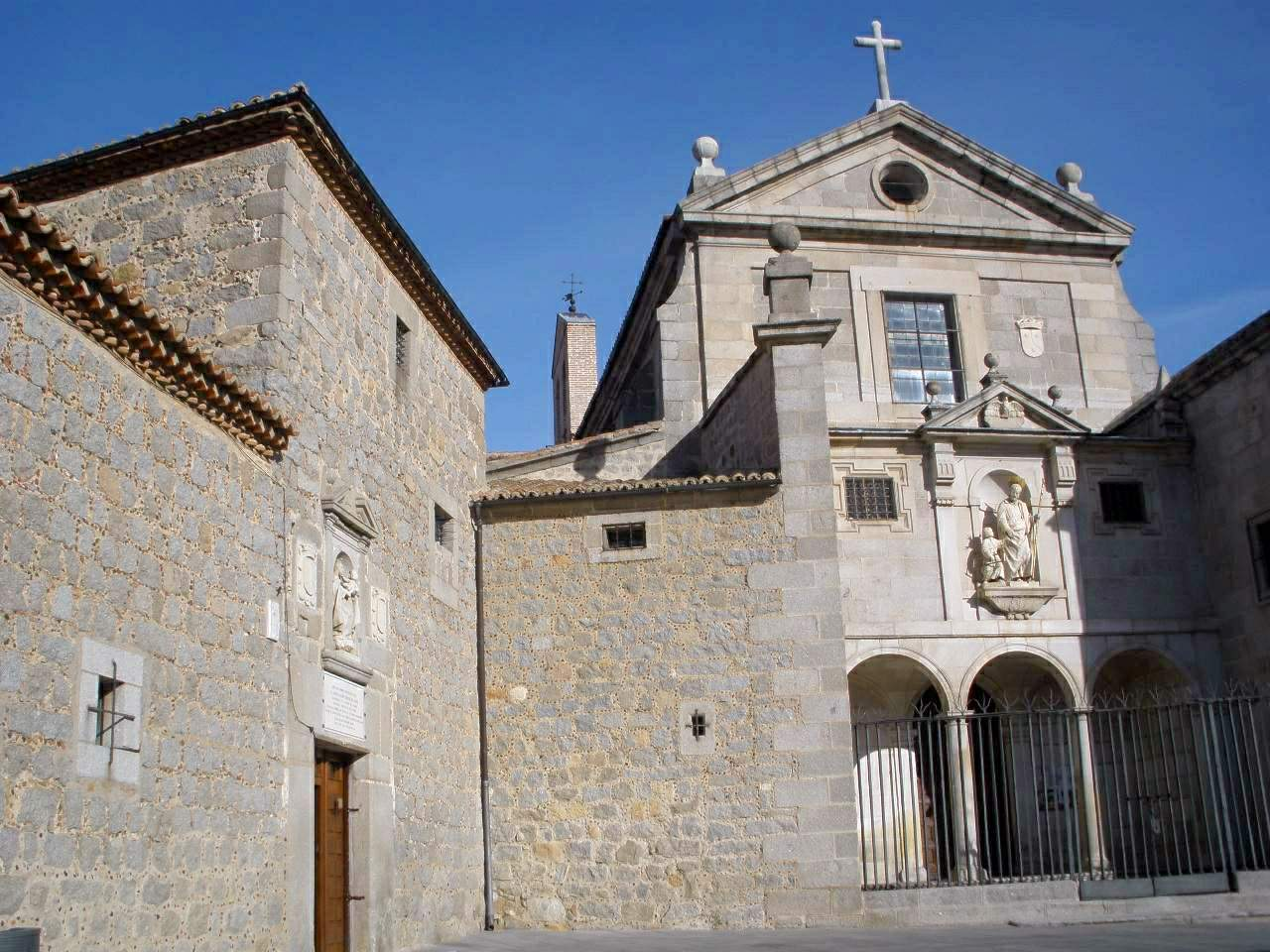 Convento teresiano de San José, o de las Madres, en Ávila.